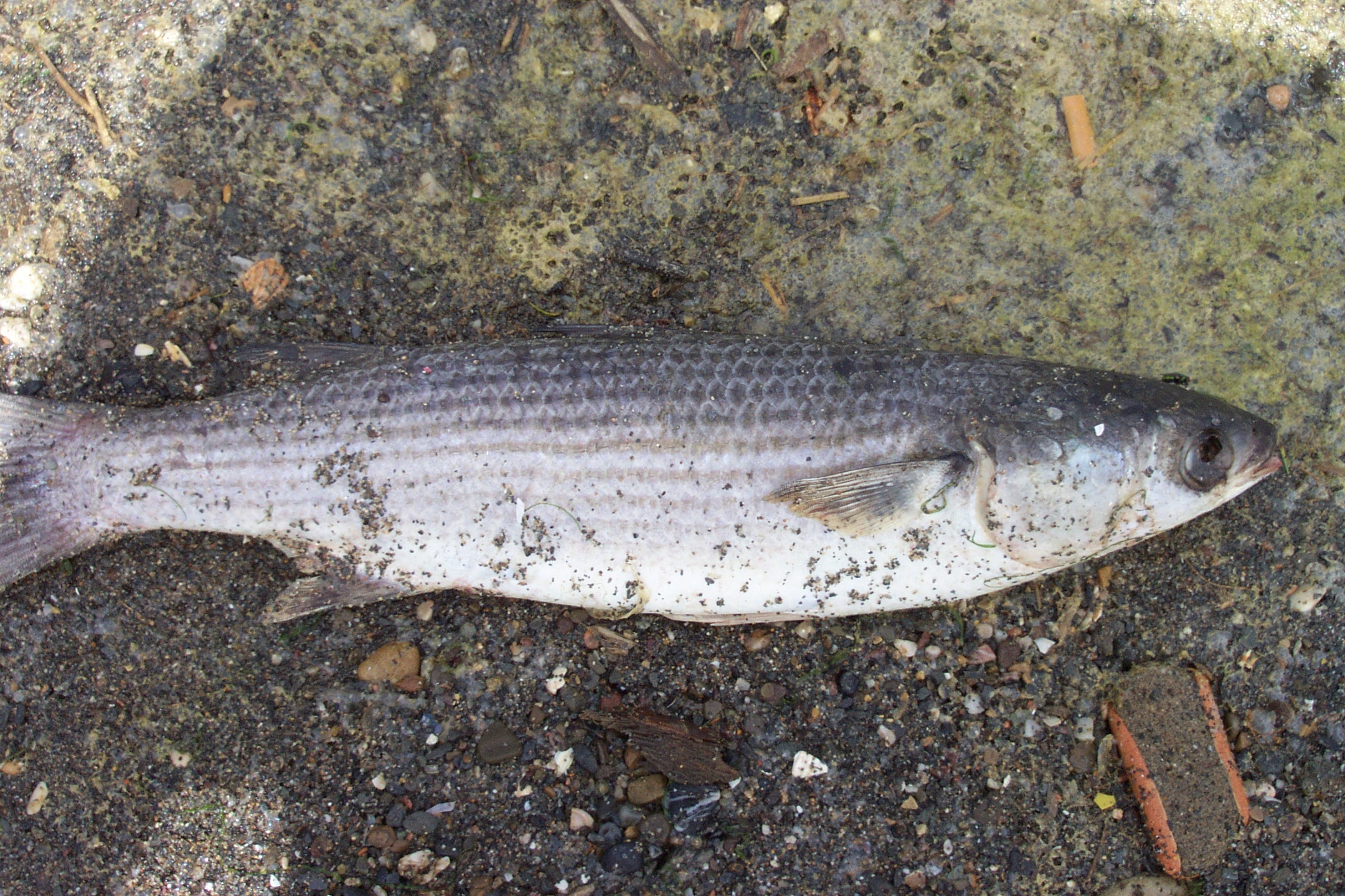 Mullet (Mugil sp.) — Guadalhorce onflow, July 2008, Malaga, Spain